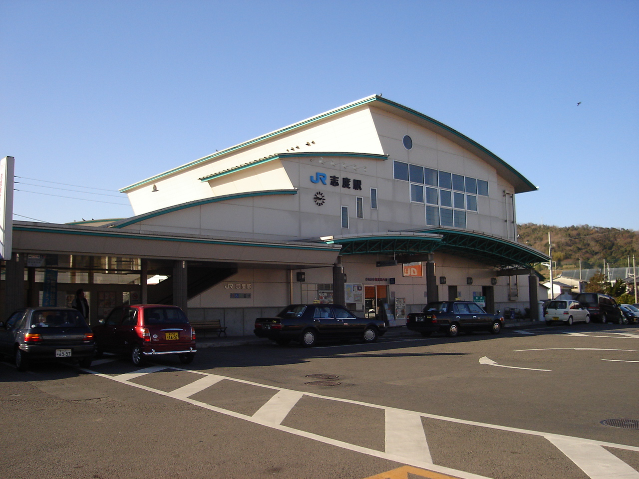 Shido Station. Located in Sanuki City, Kagawa Prefecture, Japan